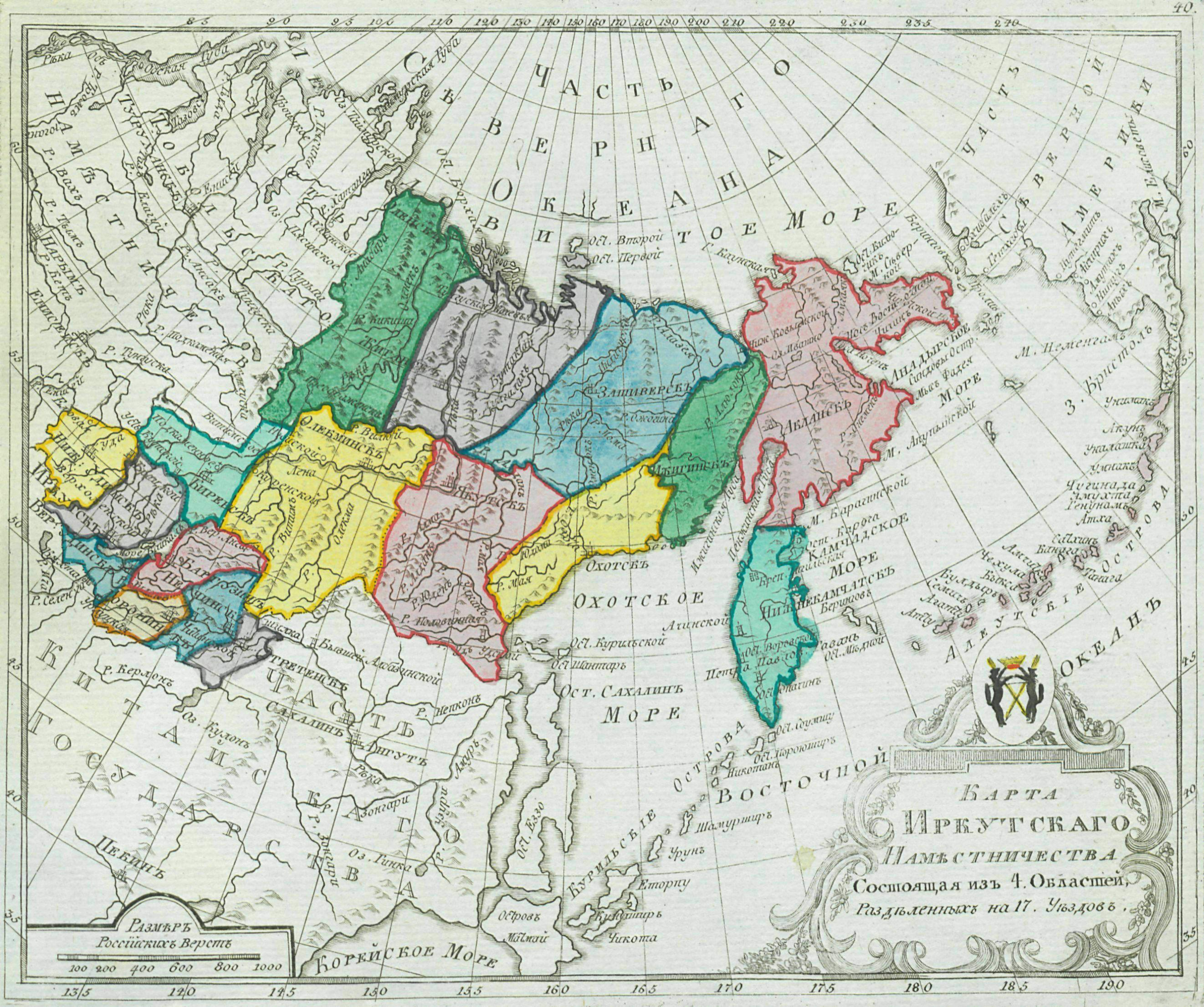 Small atlas of the Russian Empire (1792). Map of Irkutsk Namestnichestvo (map 39).